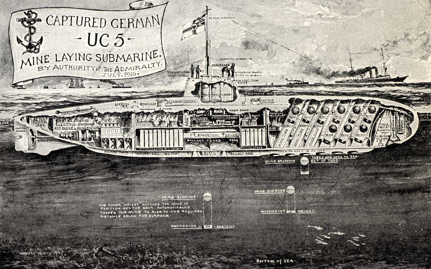 Sketch of SM UC-5